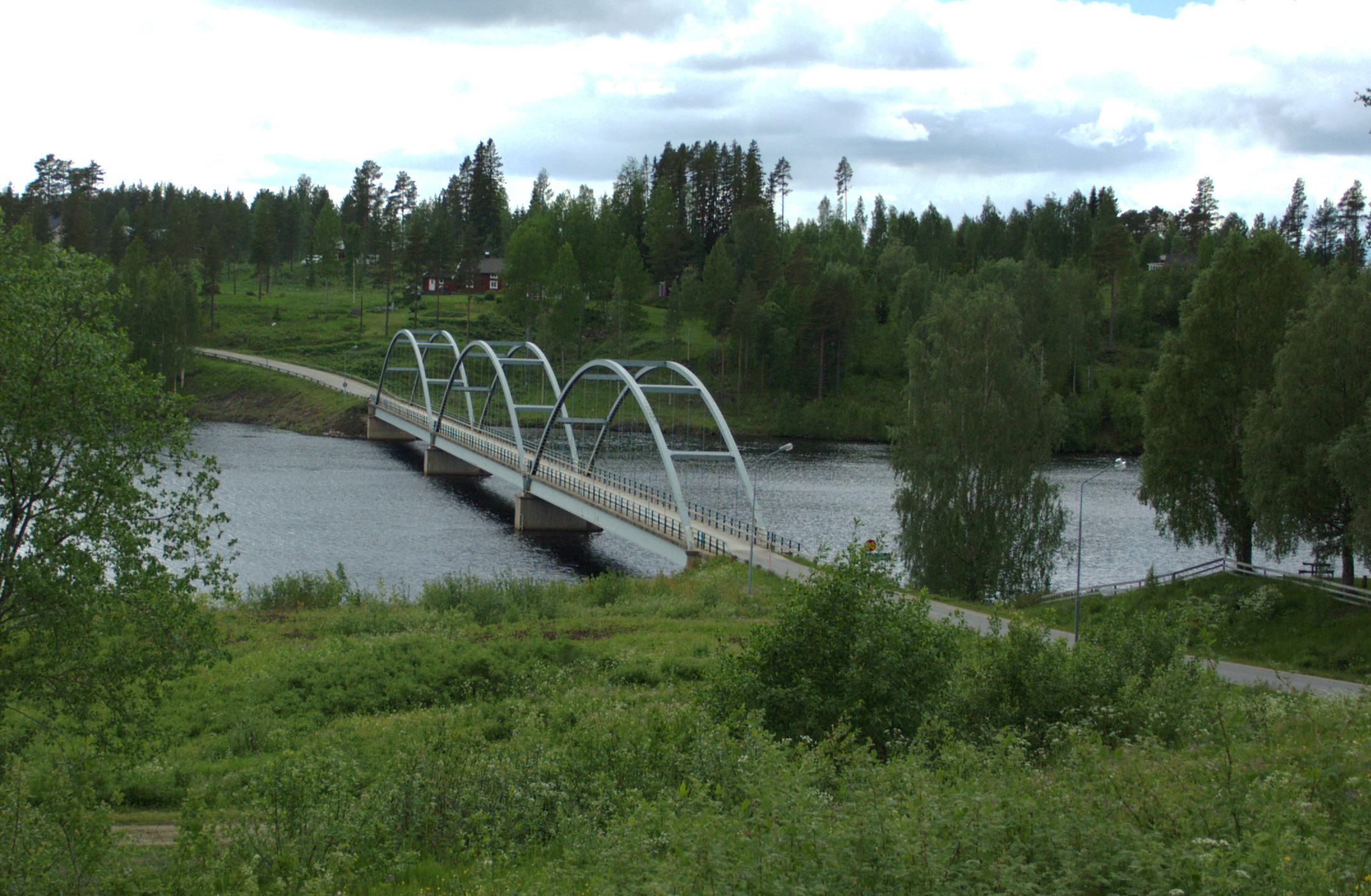 Bridge on the Ume River in Ramsele, Vindeln Municipality